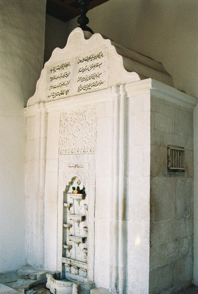 Fountain of Tears at the Ambassadors' courtyard of Hansaray in Bakhchisaray, Crimea.